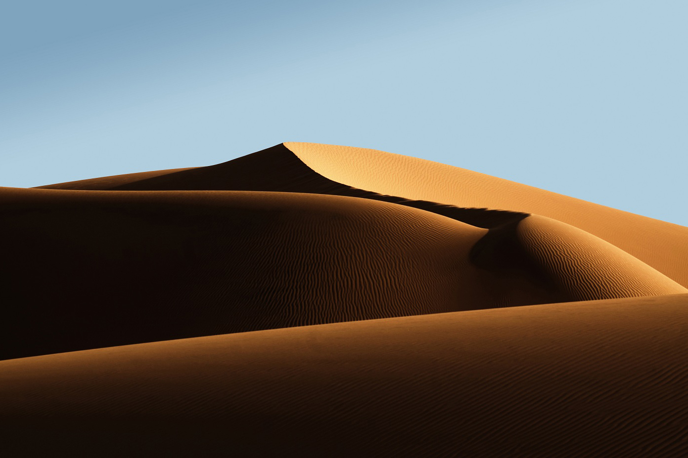 Maranjab Desert